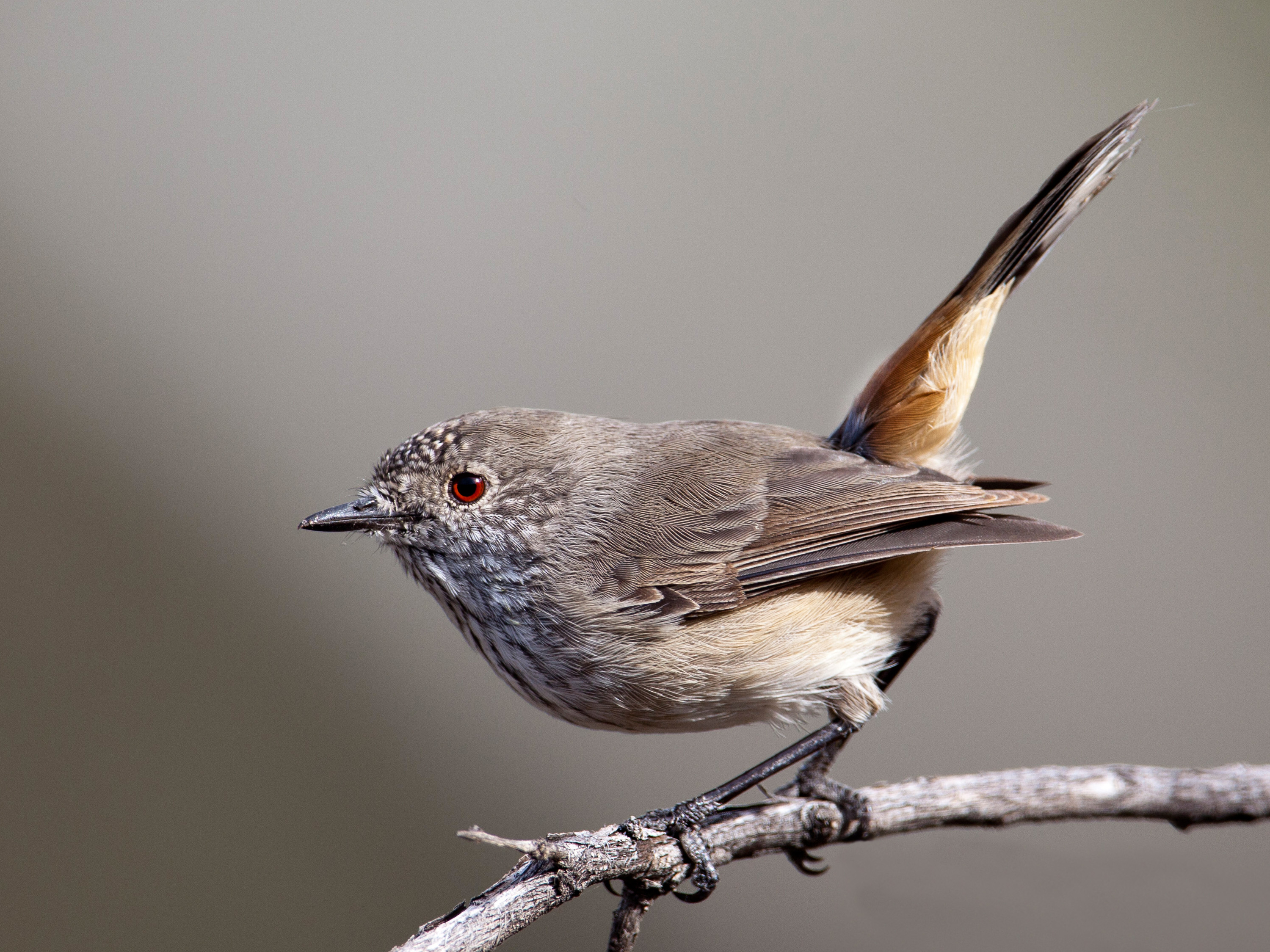 We have just come back from a few days in the beautiful Flinders Ranges in South Australia (I managed to sneak the 500 on board and had a few brief opportunities for birding). I love the Thornbills, they are usually such friendly birds that respond well to my attempts at a type of bird call! This red-eyed species tends to carry it's tail cocked, particularly when people with large white lenses try to imitate their call!